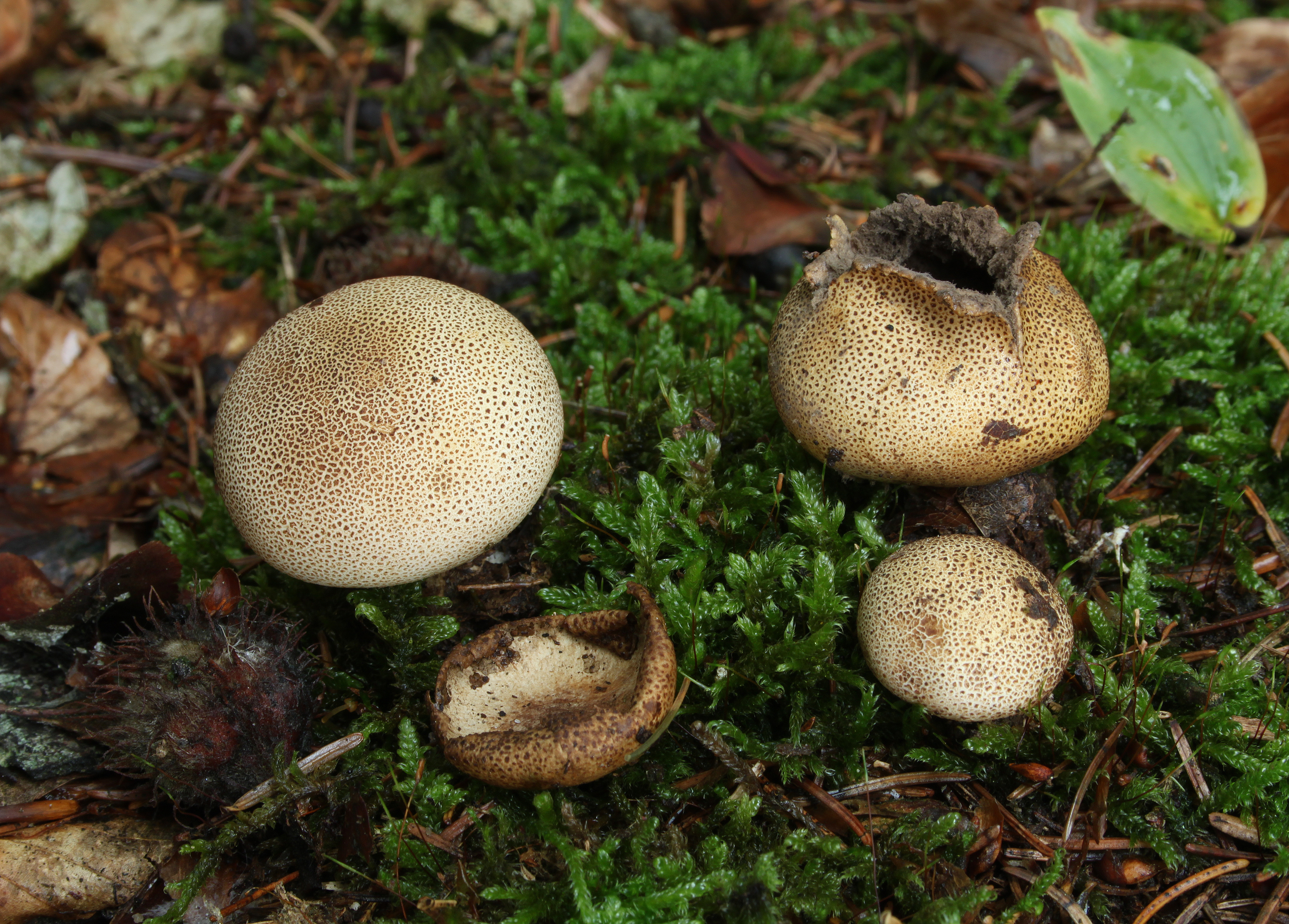 Scleroderma areolatum, Family: Sclerodermataceae, Location: Germany, Erbach, Ringingen